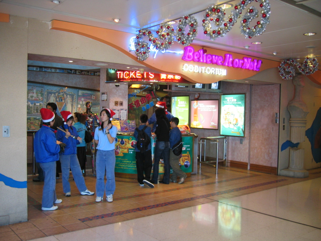 The Peak Tower Attraction: Ripley Believer it or NOT